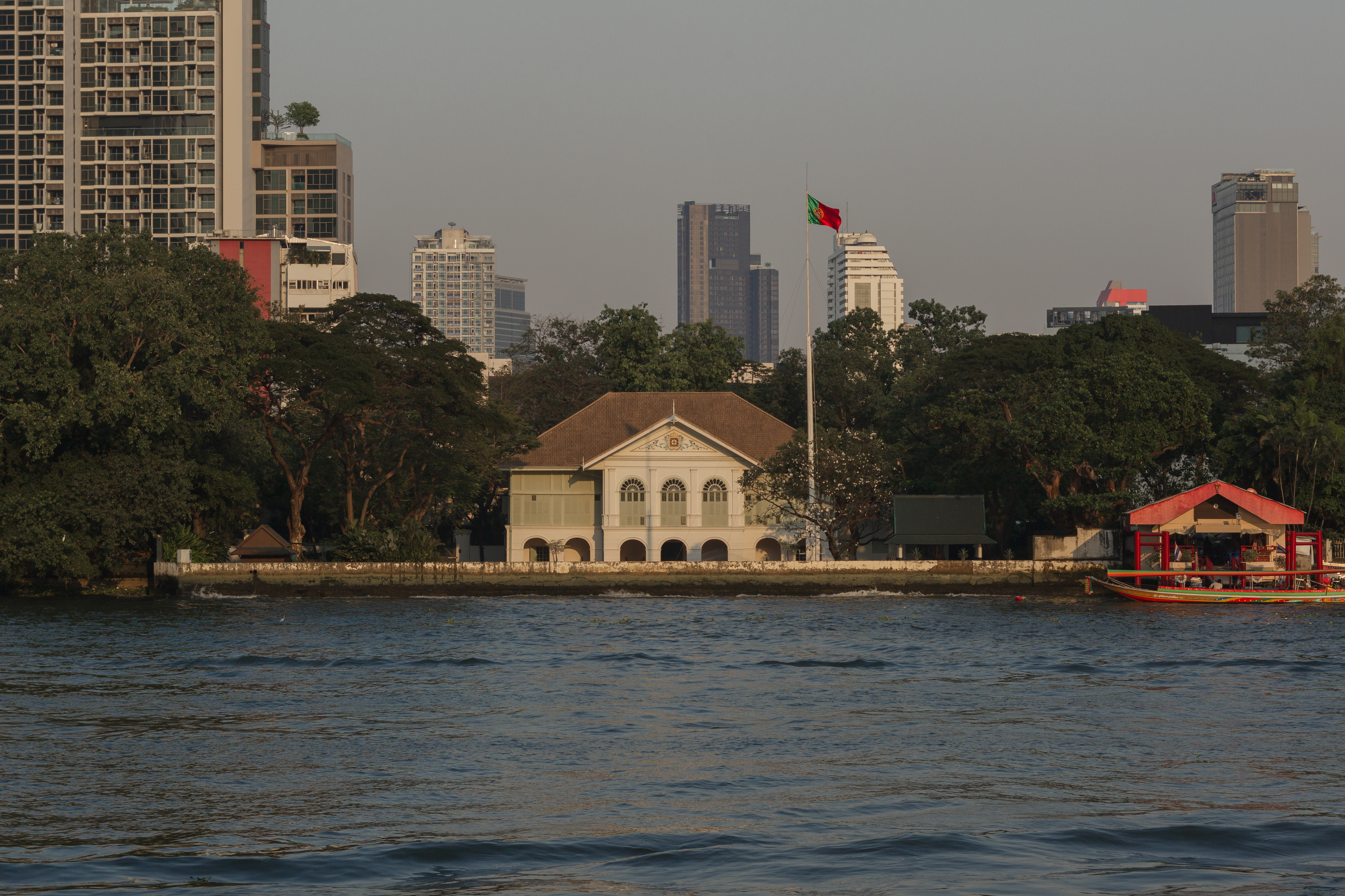 Embassy of Portugal, Bang Rak, Bangkok.